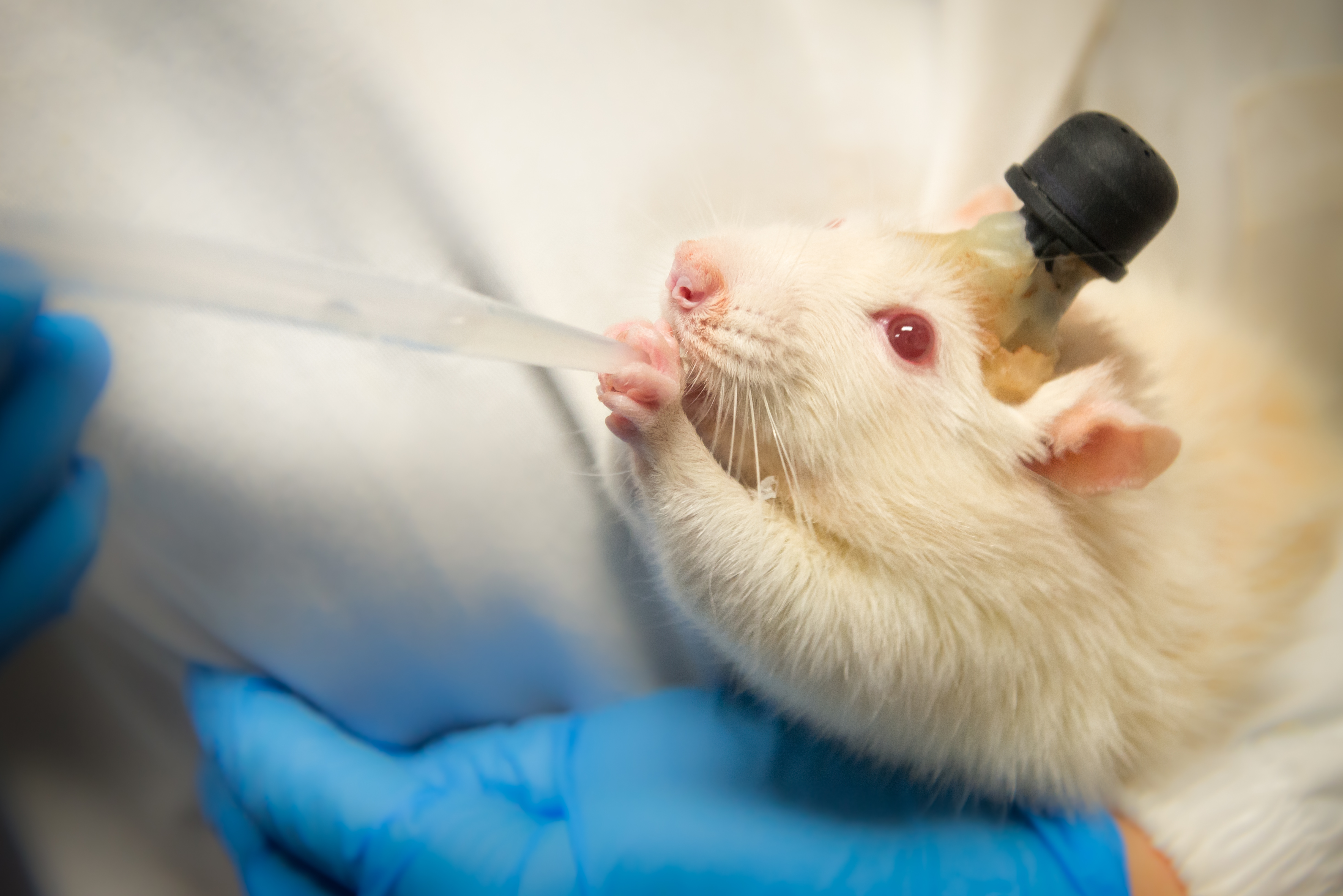 This is a laboratory rat with a brain implant, that was used to record in vivo neuronal activity during a particular task (discrimination of different vibrations). On this picture scientist feeds the rat apple juice through a pipette.